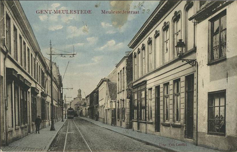 tram 6 in Meulestede